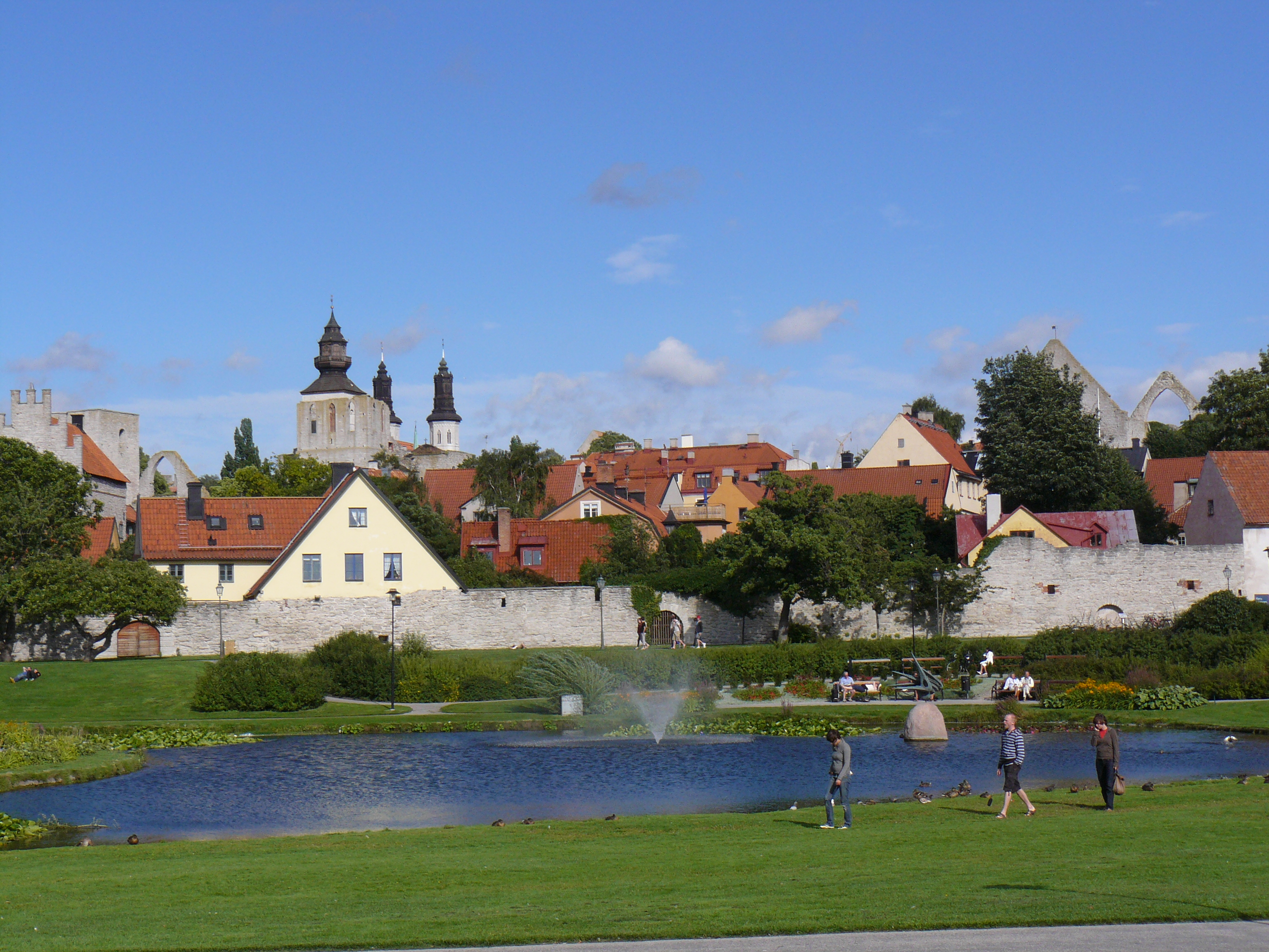 Almedalen. A park in central Visby near the seafront. Notable for Swedish political meetings during Almedalsveckan and for being the site of Visby medieval port. Zdjęcie zrobione w Visby w sierpniu 2007 roku.